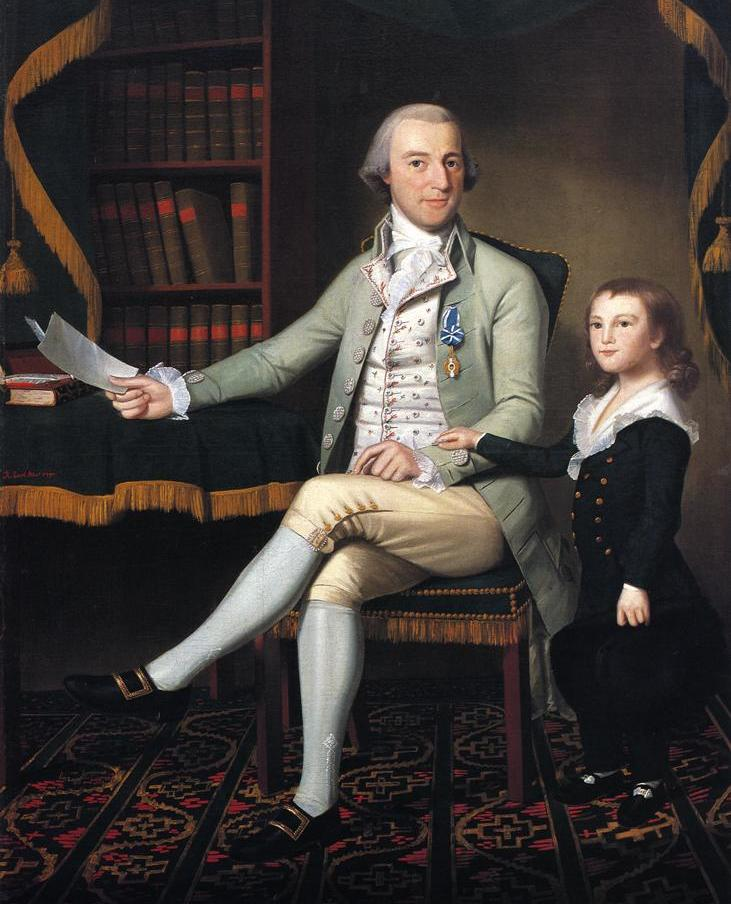 Portrait of Colonel Benjamin Tallmadge, an influential member of the Continental Army during the American Revolutionary War, with his son William Tallmadge. This is a 1790 portrait by American painter Ralph Earl.